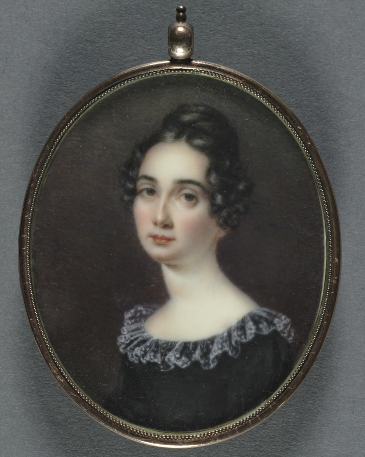 Portrait of a Woman, c. 1820, by Anna Claypoole Peale (American, 1791–1878), watercolor on ivory on a gilt metal locket with red leather case, Framed: 7.1 x 6 cm (2 3/4 x 2 5/16 in.). The Cleveland Museum of Art, #2008.229